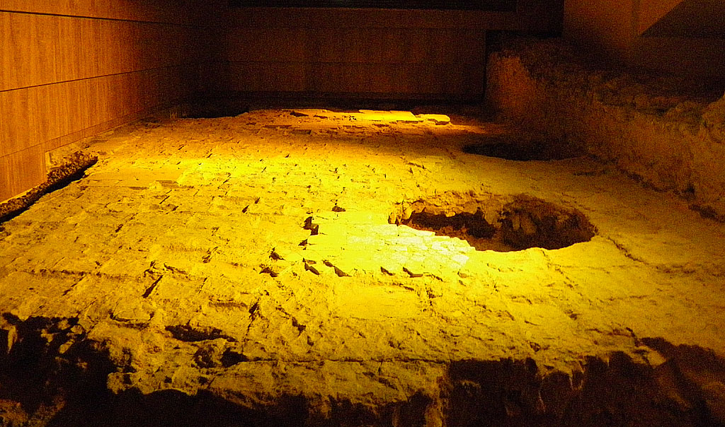 August Caesar Temple Asturica Augusta